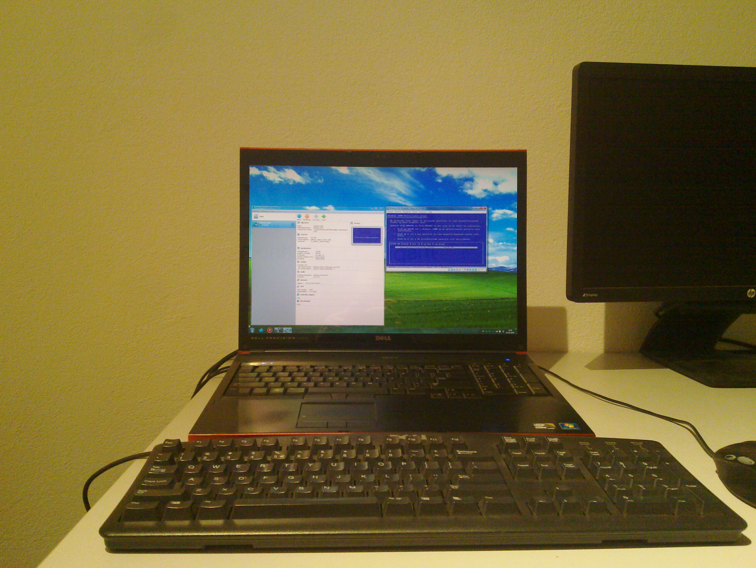 A Dell Precision M6500 Covet Edition running Windows 7, with Oracle VirtualBox running a Windows 2000 VM in process of being installed.